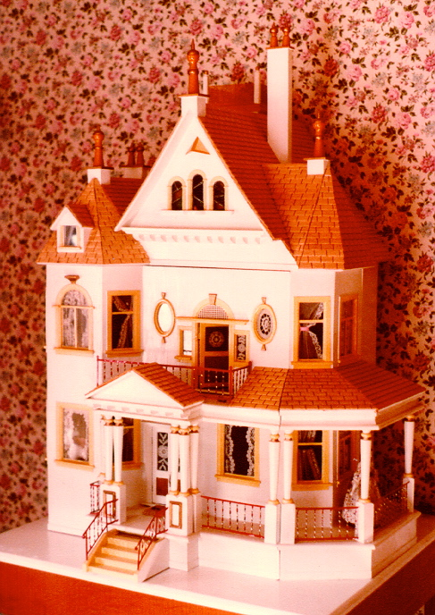 My late grandfather hand-built this dollhouse.